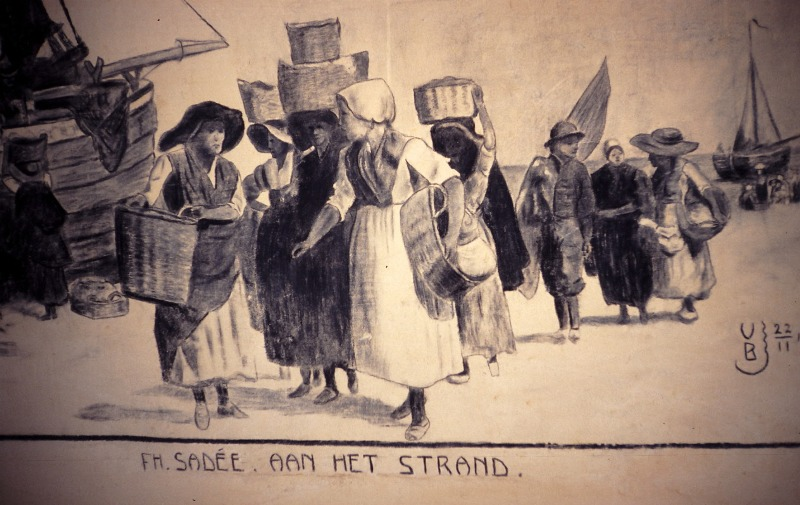 Jezuïetenberg - On the beach. By Marinus van Baren S.J., 1906.